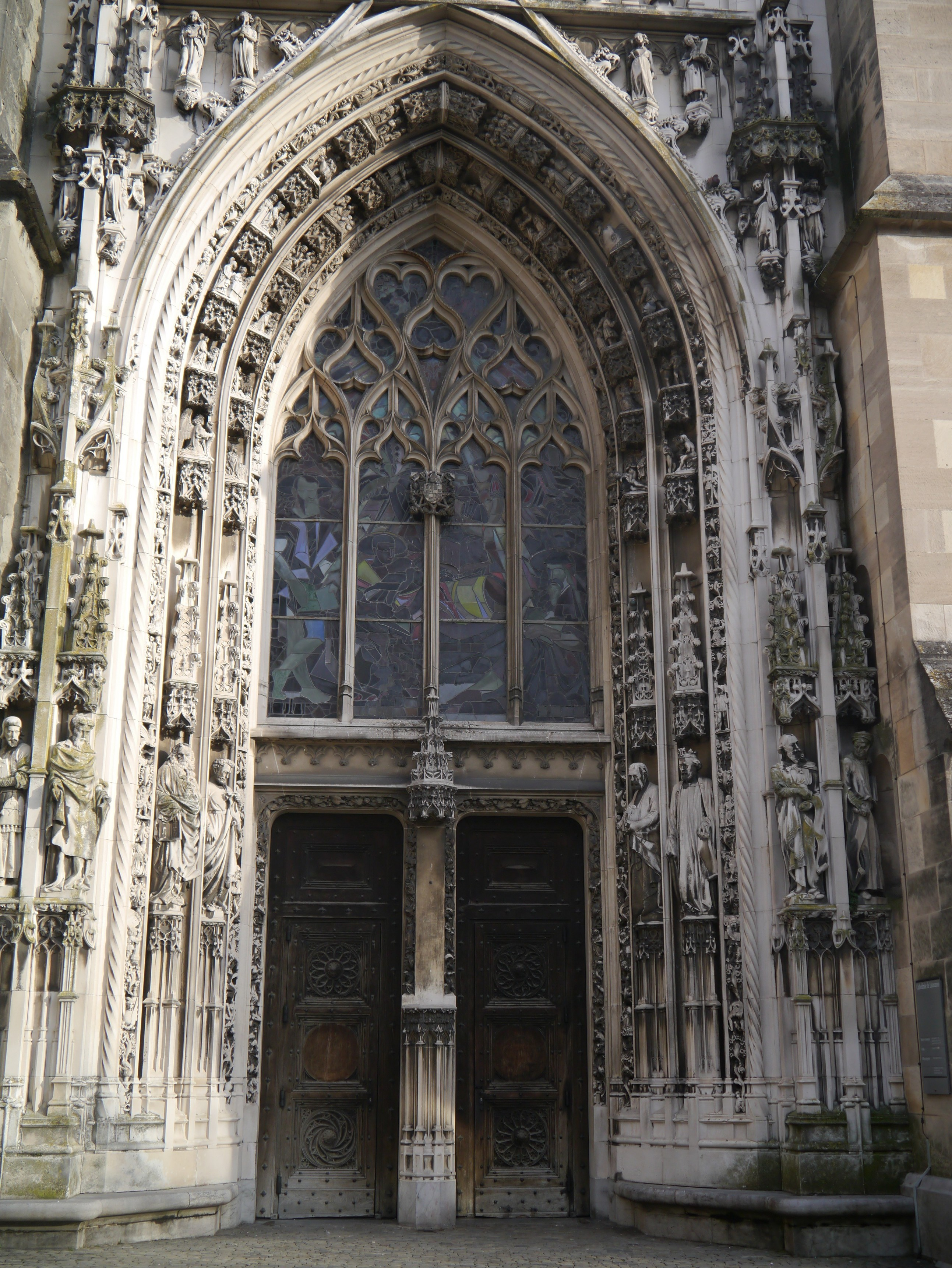 Gateway of the Cathedral of Our Lady of Glarier, Lausanne, Canton of Vaud, Southwestern Switzerland